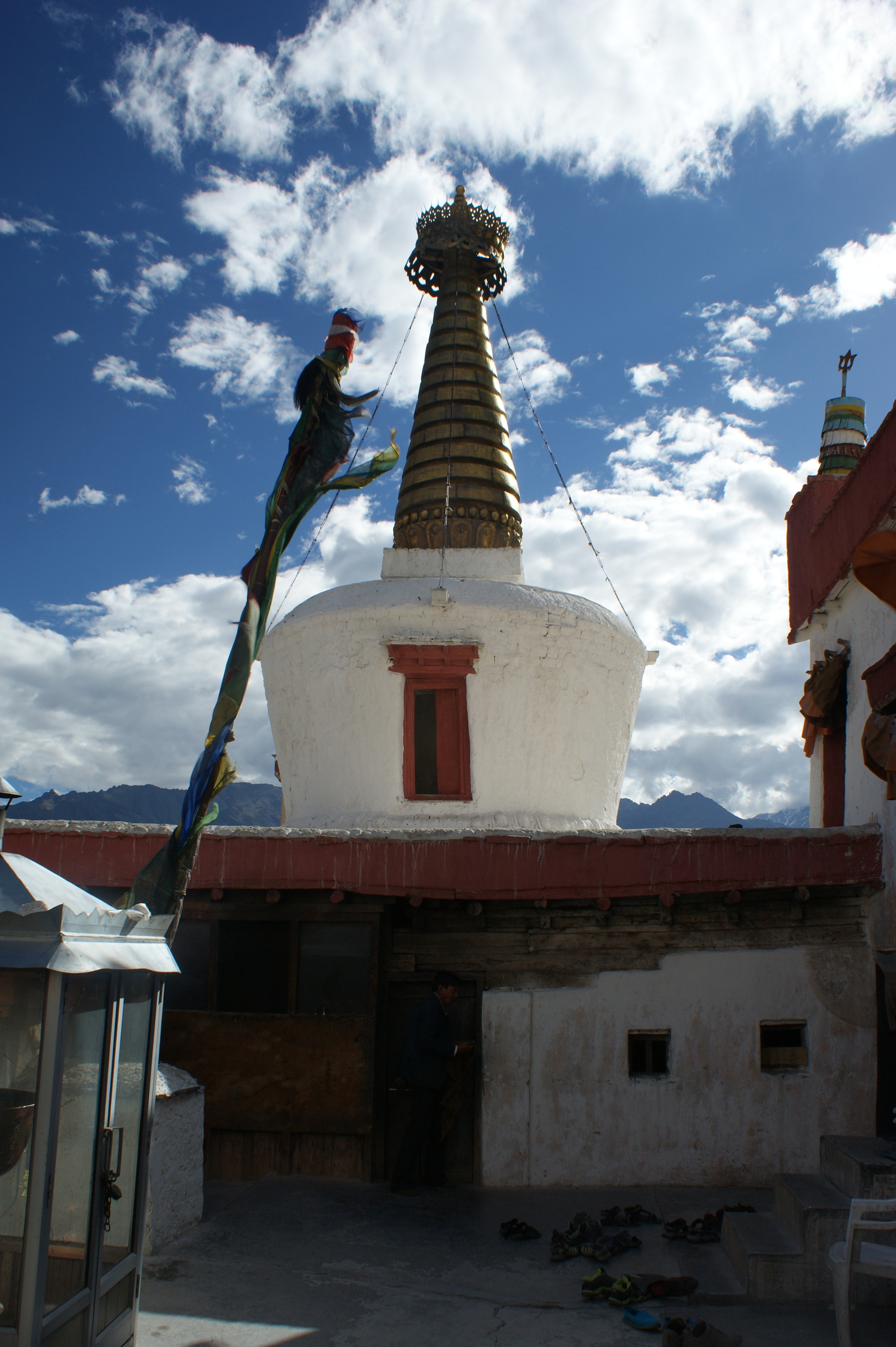 Inner Courtyard of Shey Palace. The golden chorten spire is centered.